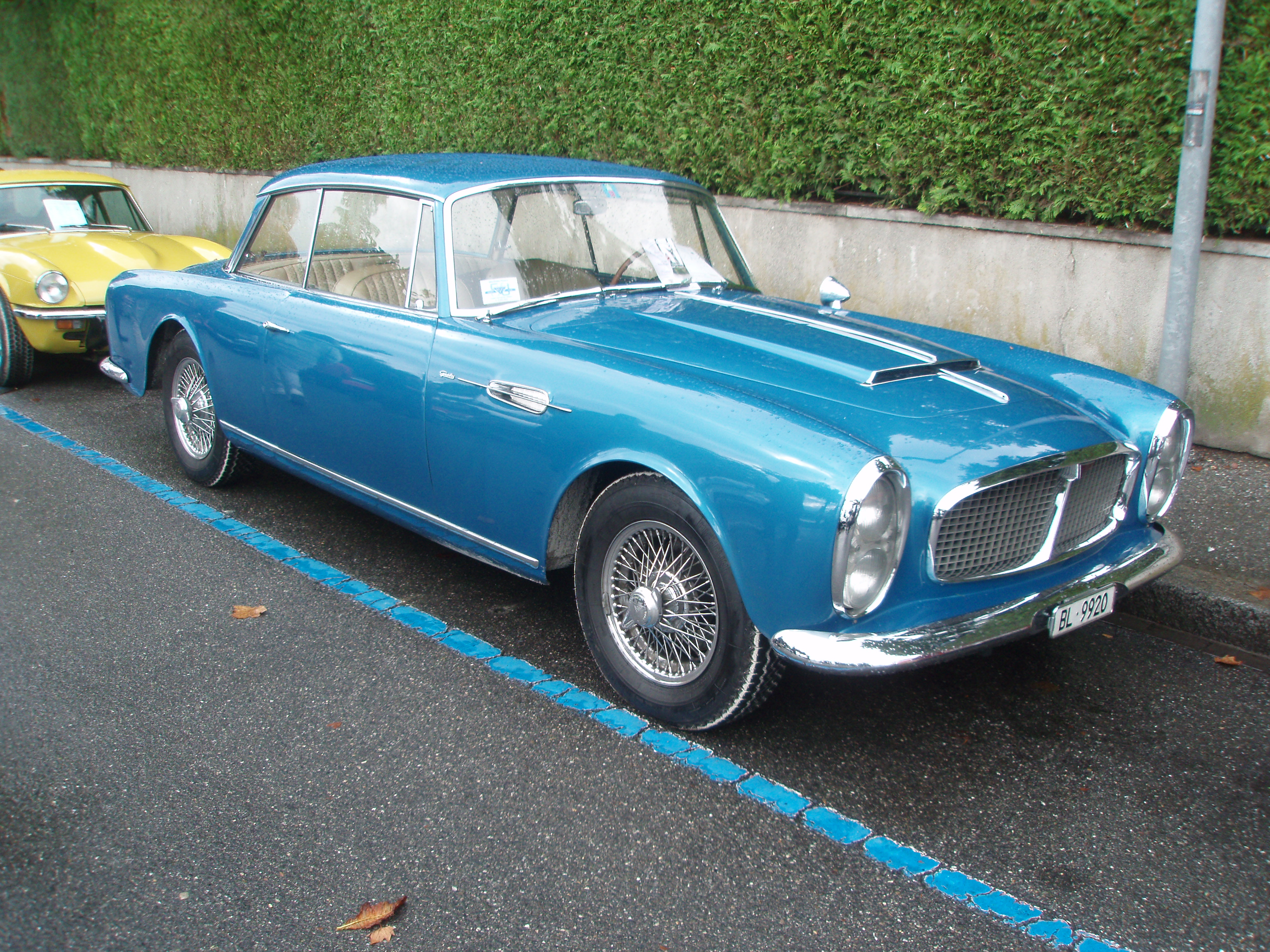 1964 Alvis TE2 Graber Super